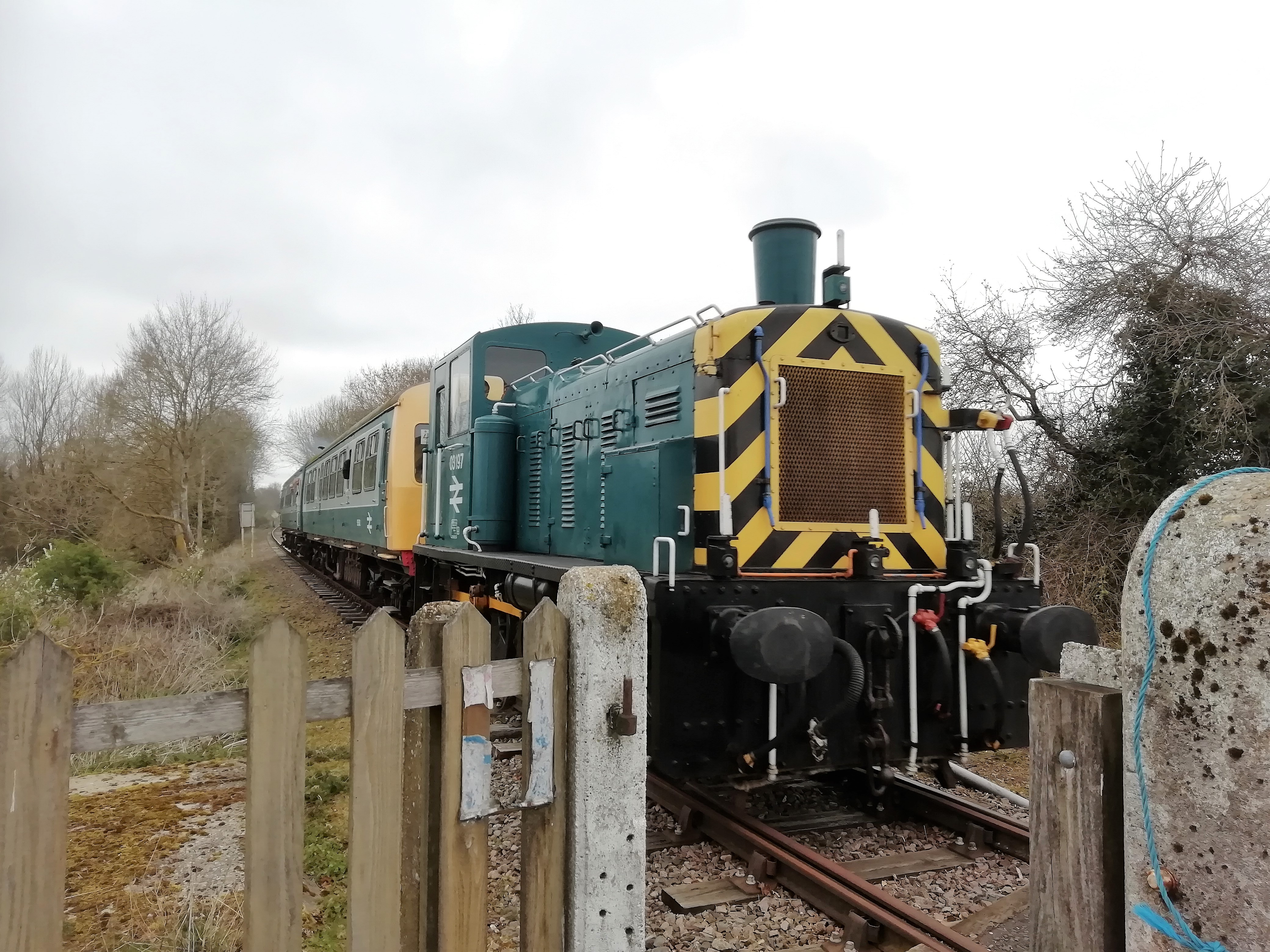 Seen returning from Worthing, on 6 April 2019